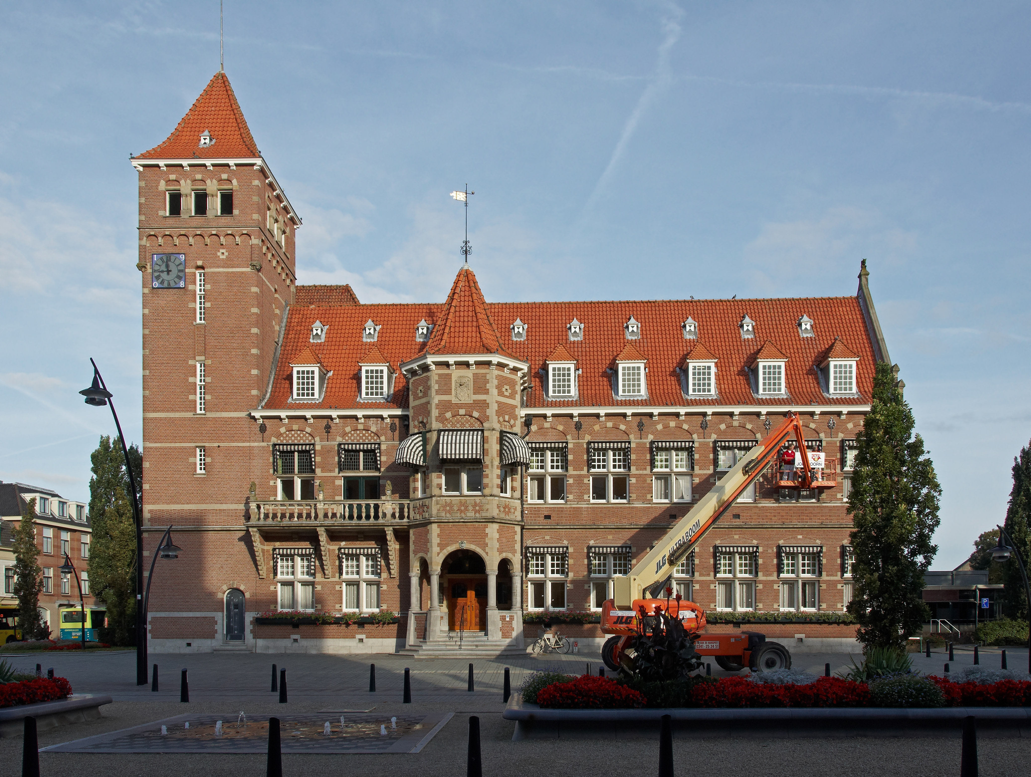 Town hall in Zeist, the Netherlands